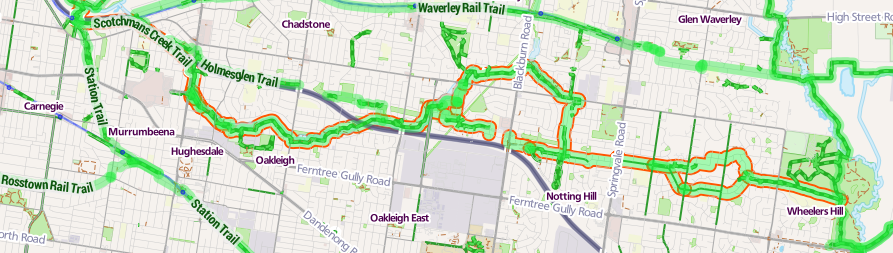 Map of Scotchmans Creek Trail. Data (c) OpenStreetMap Contributors. Rendered using TileMill, with style created by me.